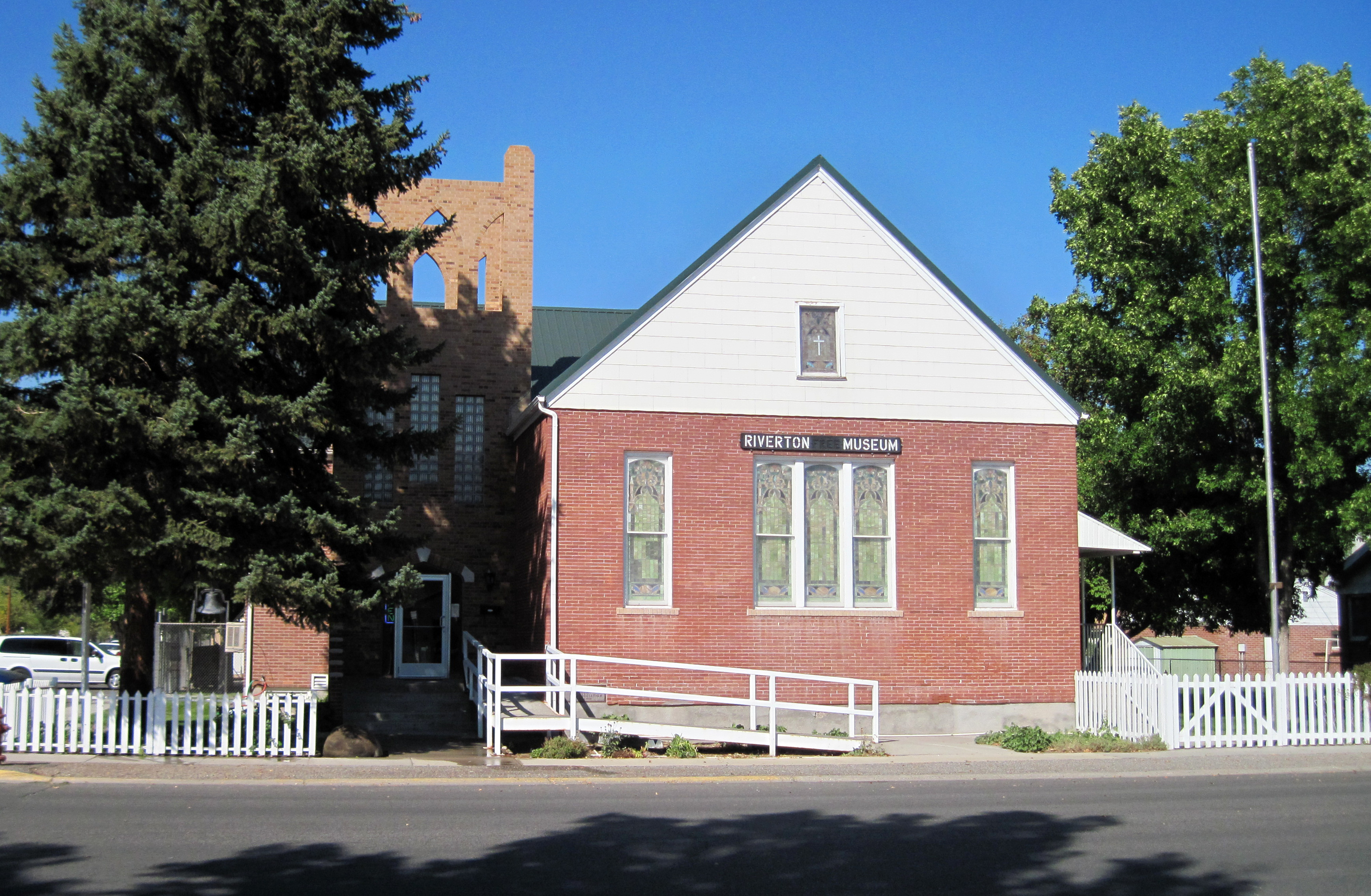 The Riverton Museum in Riverton, Wyoming, housed in a former Methodist Church from 1915. The "tower" on the left was added circa 1950.